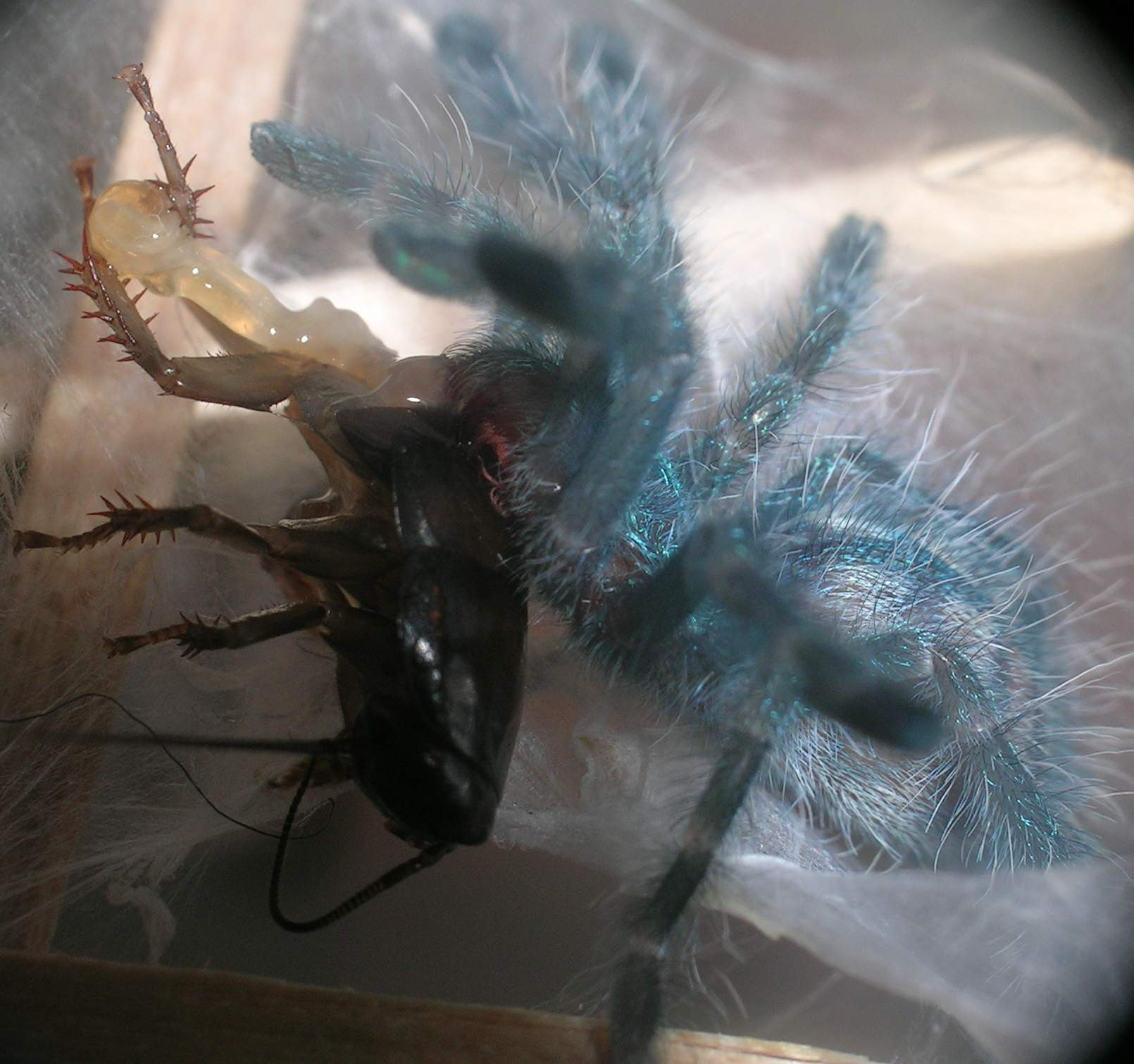 Caribena versicolor, syn. Avicularia versicolor, eating half of a cockroach